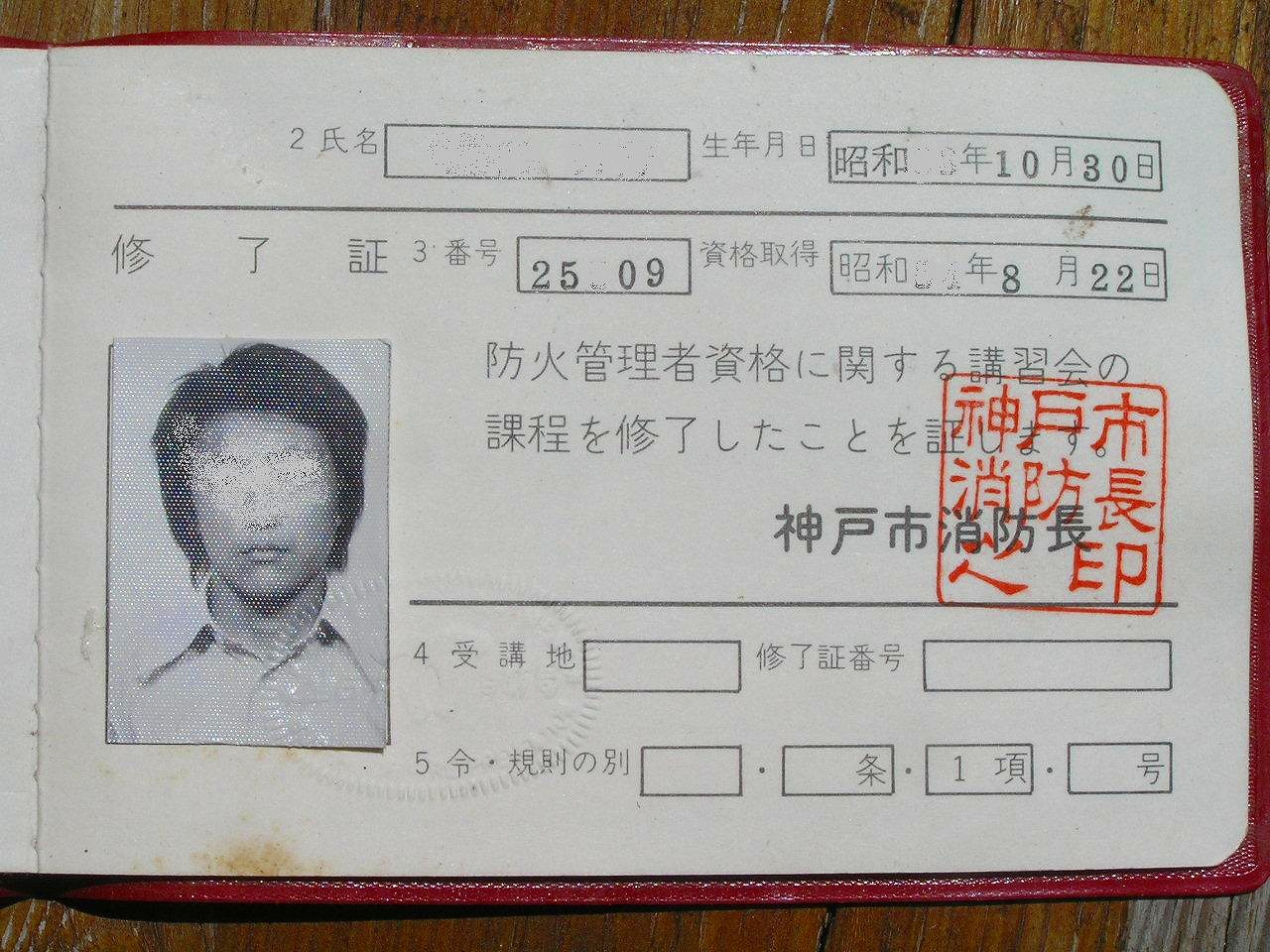 Fire prevention managers identity card, dating from Showa year 55 (1980).